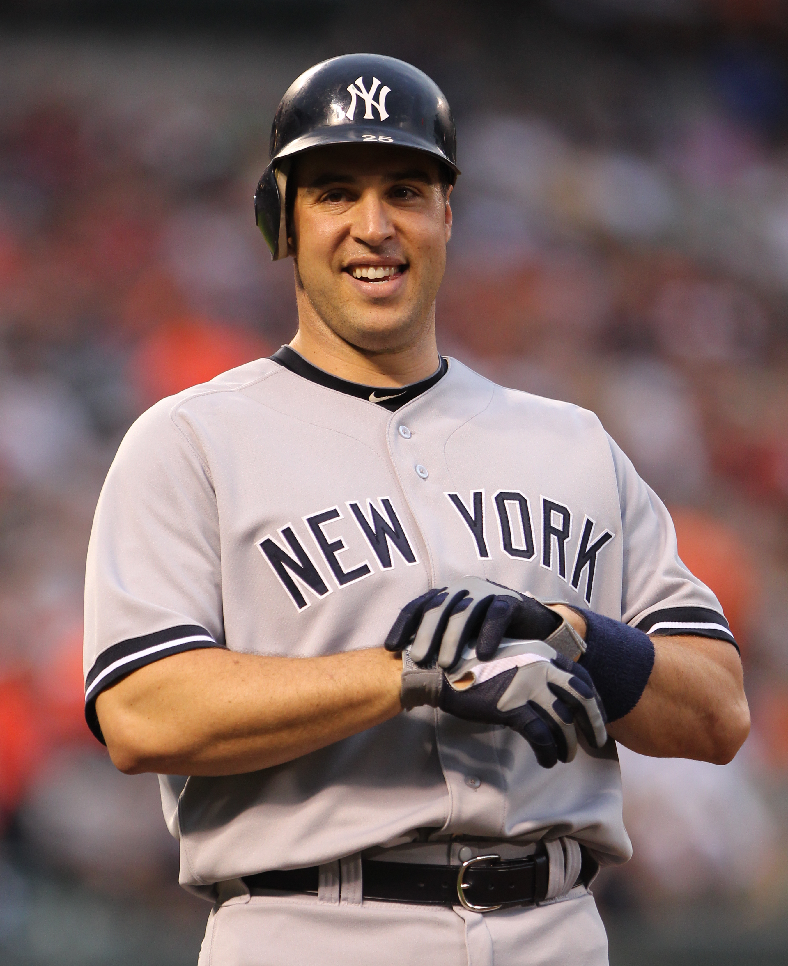 Mark Teixeira on the basepaths during a game between the New York Yankees and Baltimore Orioles on August 26, 2011